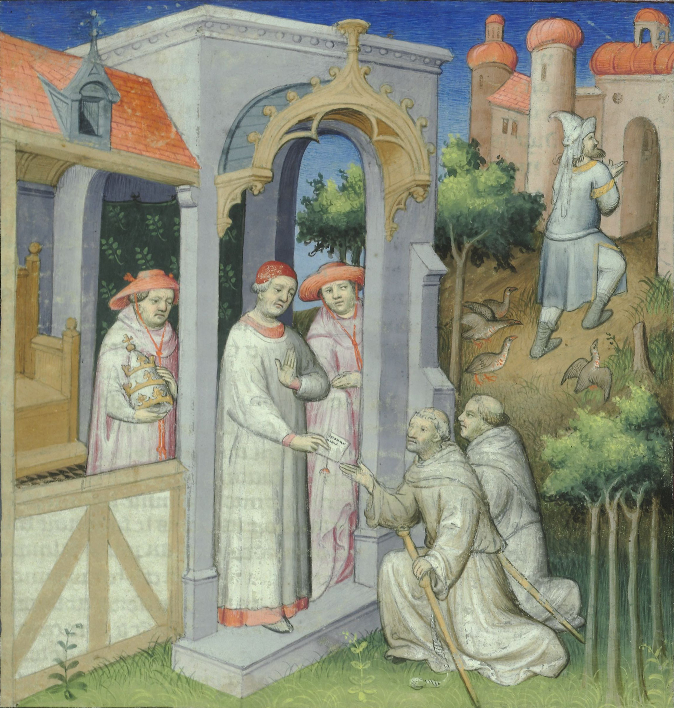 Odoric of Pordenone and Pope John XXII.